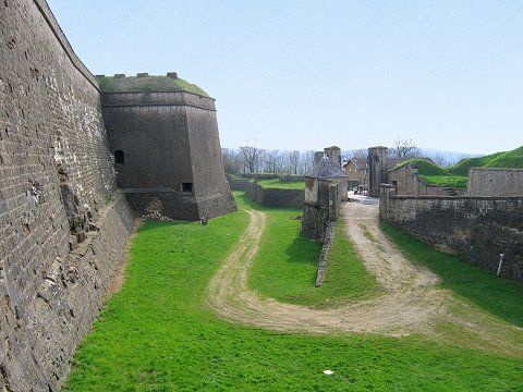 Castle of Montmedy